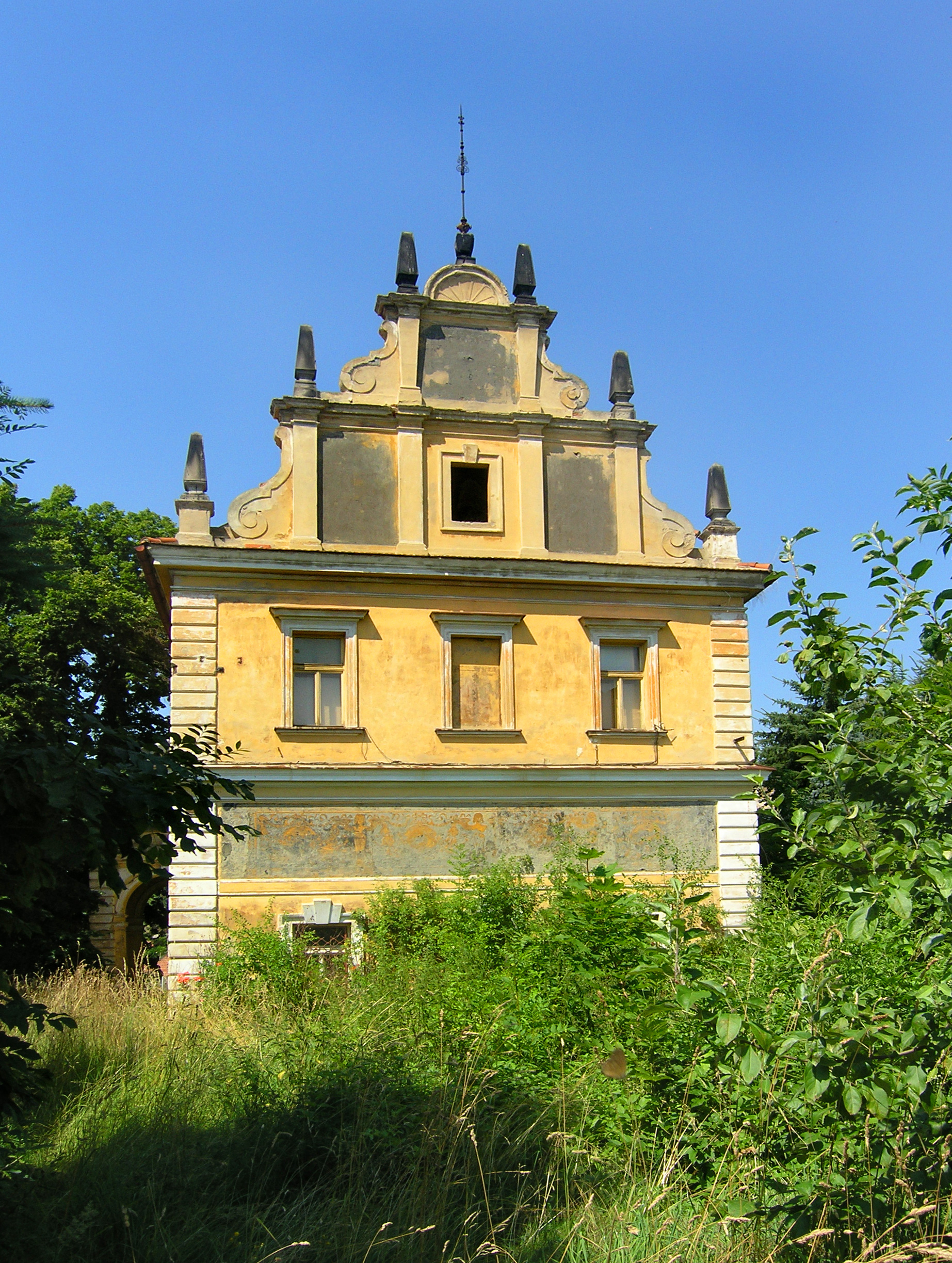 Castle in Mšené-lázně village, Czech Republic